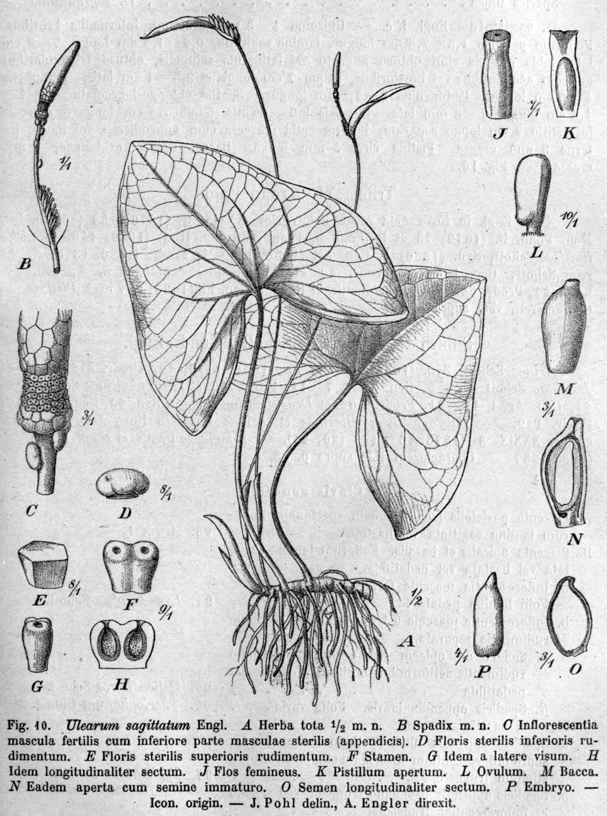 Ulearum sagittatum botanical drawing from Das Pflanzenreich